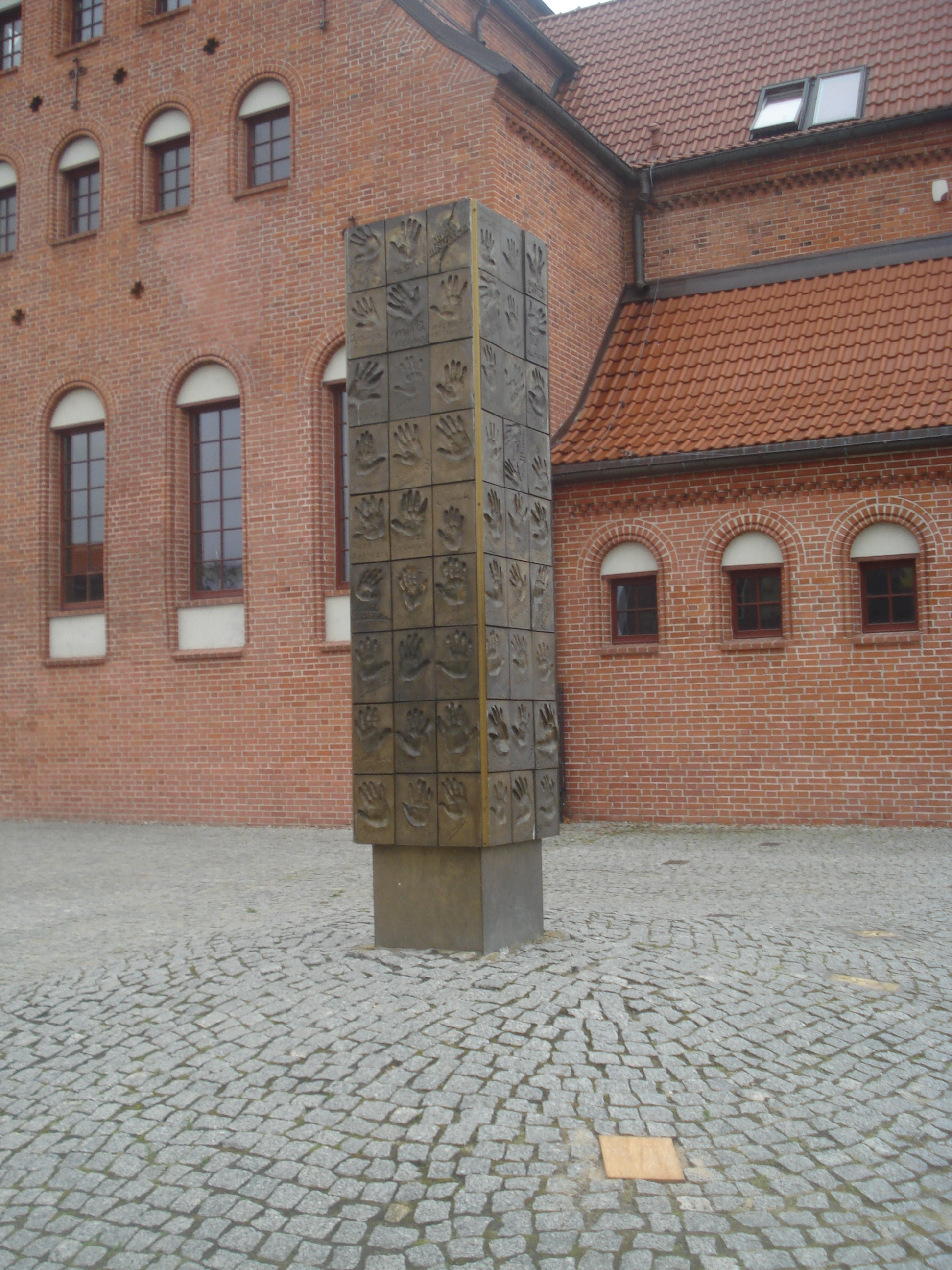 The handprints by famous artists in the Stars Promenade in Gdańsk (Poland)